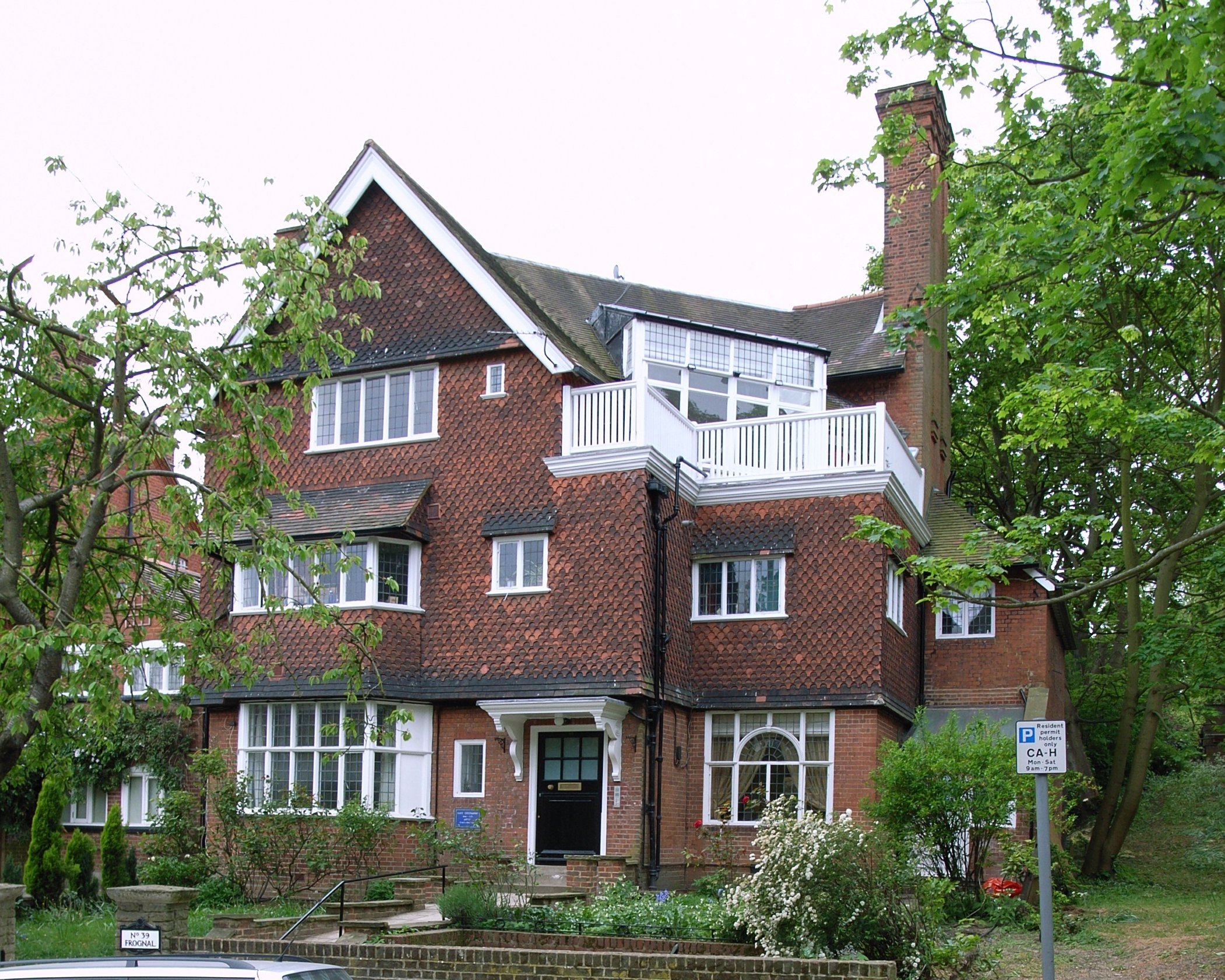 Studio House (1885) designed by Richard Norman Shaw for Kate Greenaway, 39 Frognal, Hampstead, London, England. A Grade II listed building (IoE 477407).